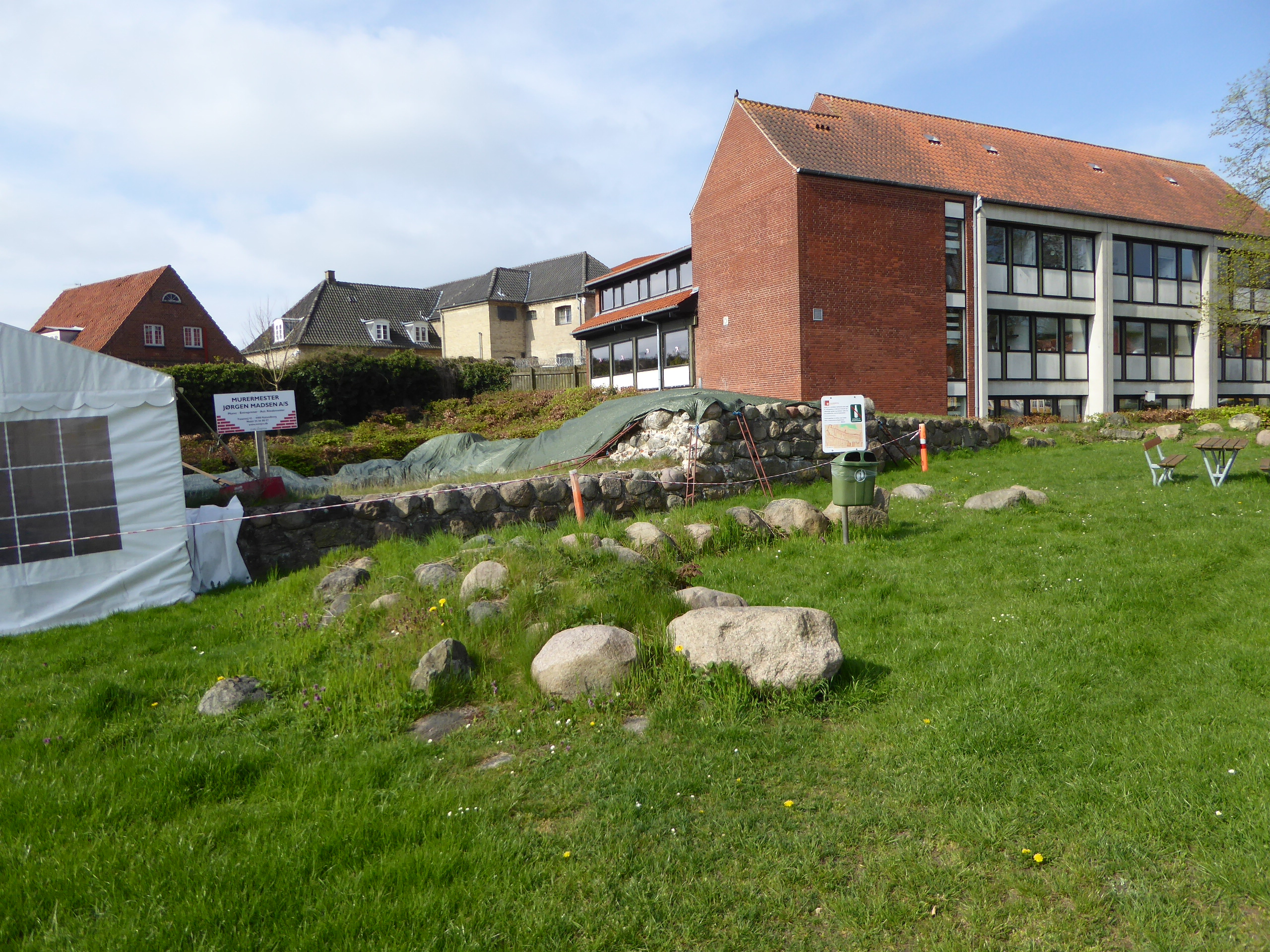 Ruins of Kalundborg Slot in Denmark. The castle was build either in the late 12th century or in the middle of the 14th century.